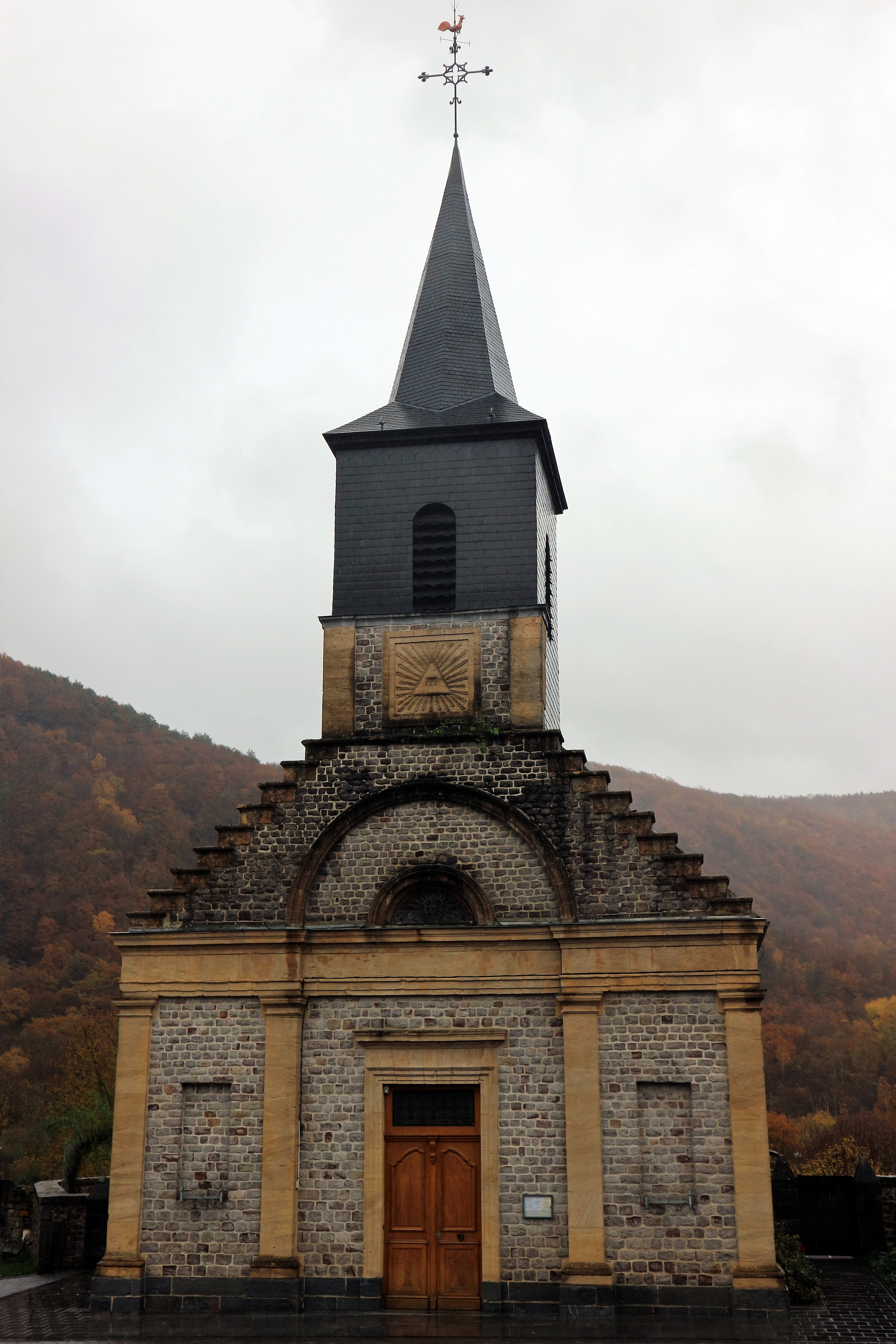 The church's furniture dates mainly from the first half of the 19th century, including the polychrome wooden statues, the pulpit, the side altars and the main altar. The stained glass windows were made by the Marquant workshop in Reims in 1866, with the exception of the bay on the axis built in 1966 by the De Troeyer sisters in Reims. The baptismal font, the funeral slab and the Virgin and Child of the 18th century and the oldest work is a panel painted on wood of the 16th century representing the Nativity.